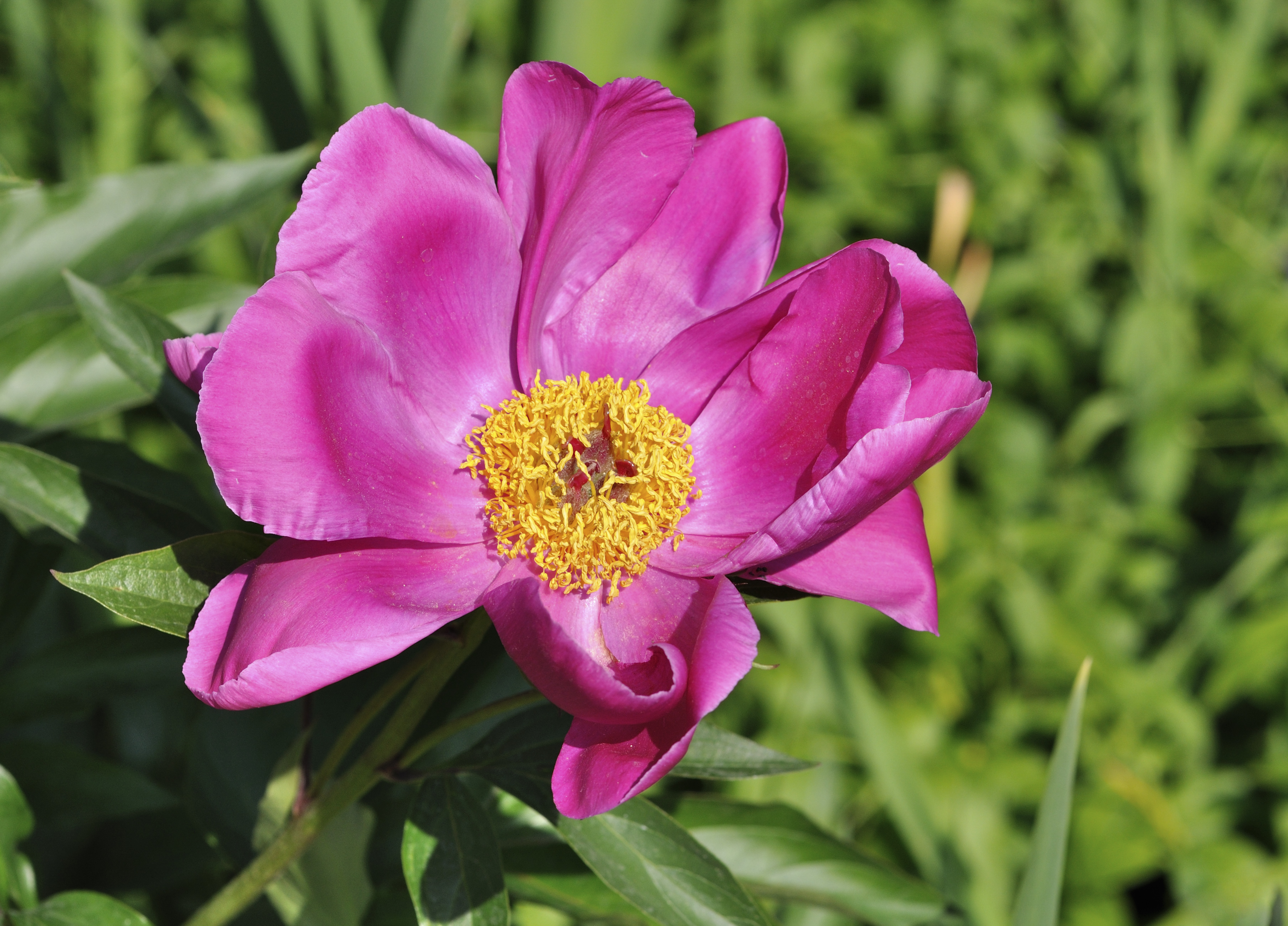 Common Peony (Paeonia officinalis) in Palmengarten, Frankfurt, Germany.